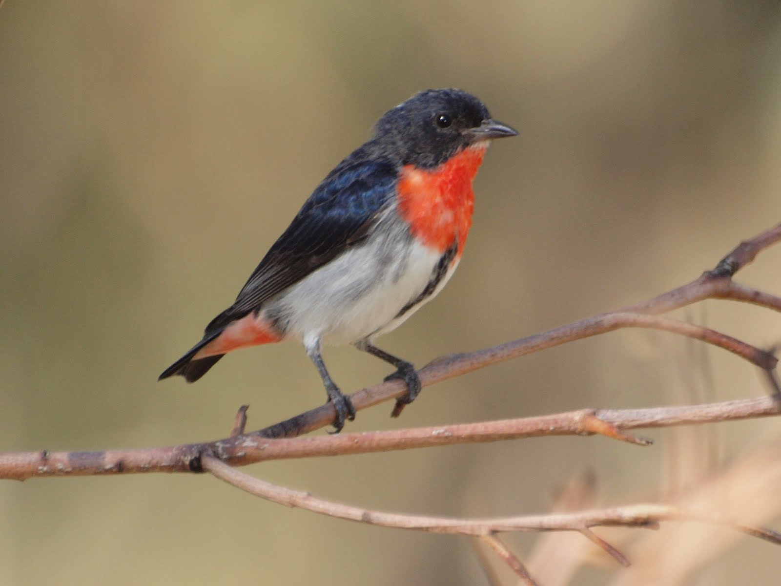 A male Mistletoebird near Lake Ginninderra, Canberra, Australia.